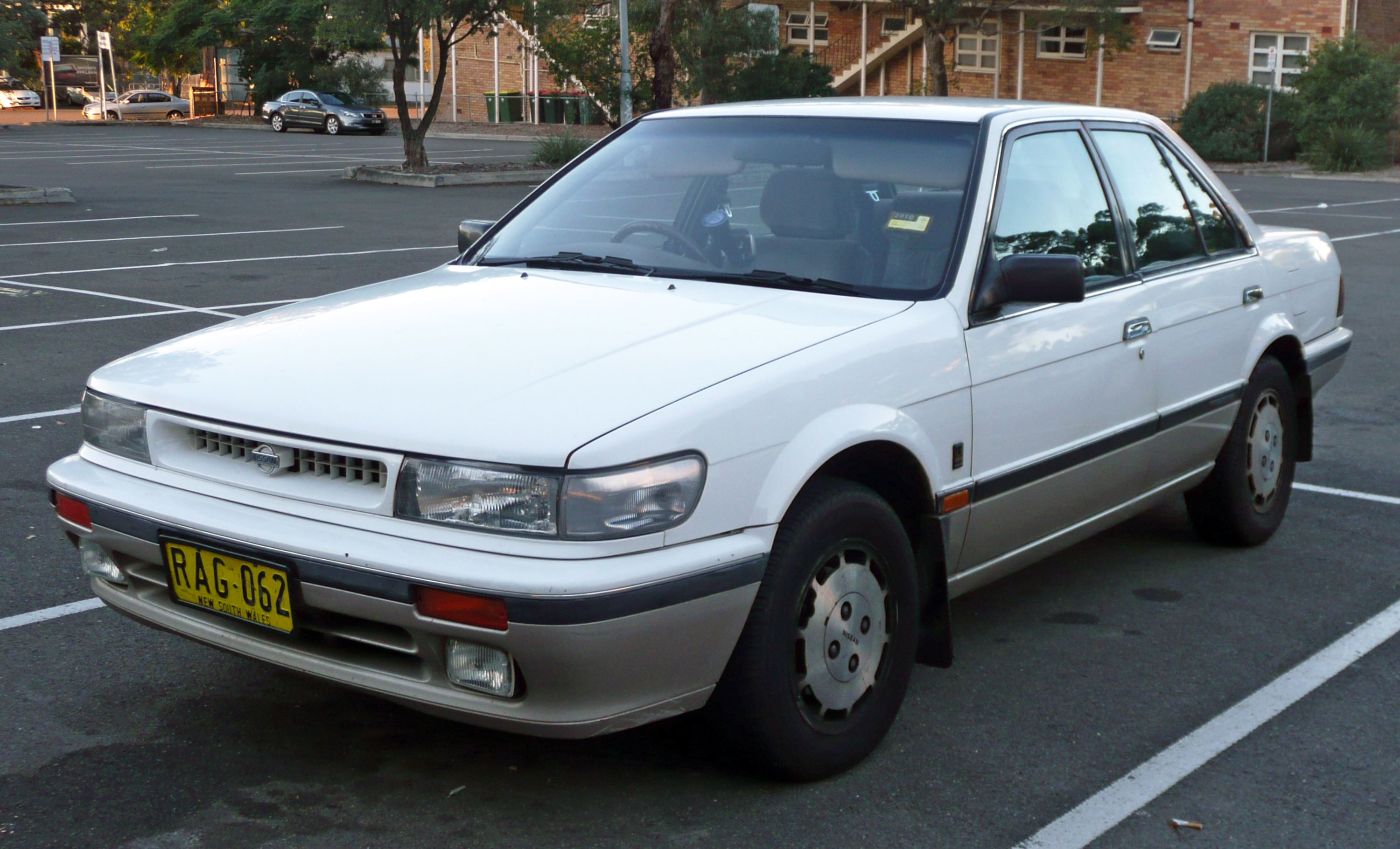 1990 Nissan Pintara (U12) Ti sedan. Photographed in Caringbah, New South Wales, Australia.